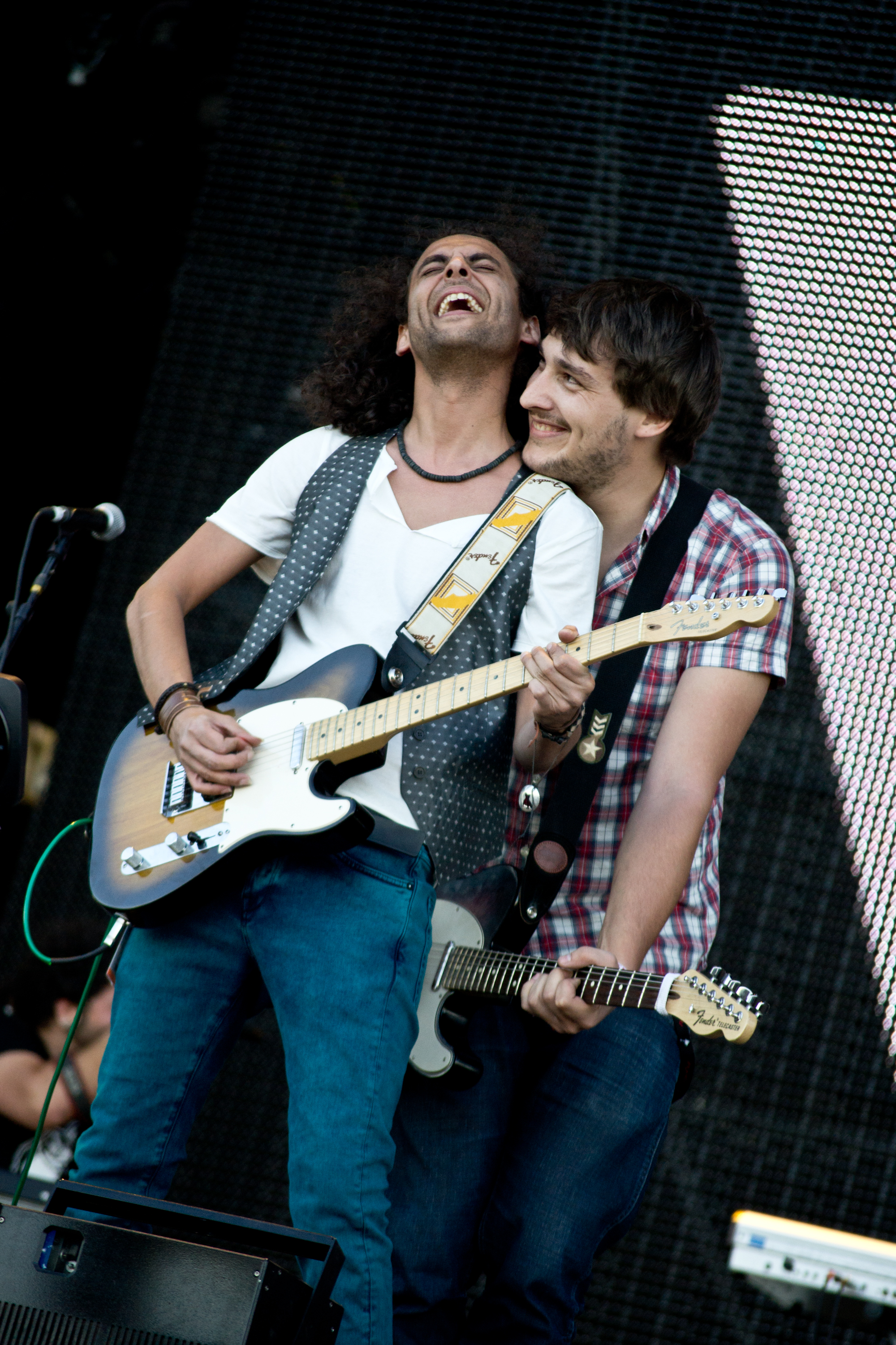 Spanish pop rock group El último vagón playing live at Rock in Rio Madrid 2012.